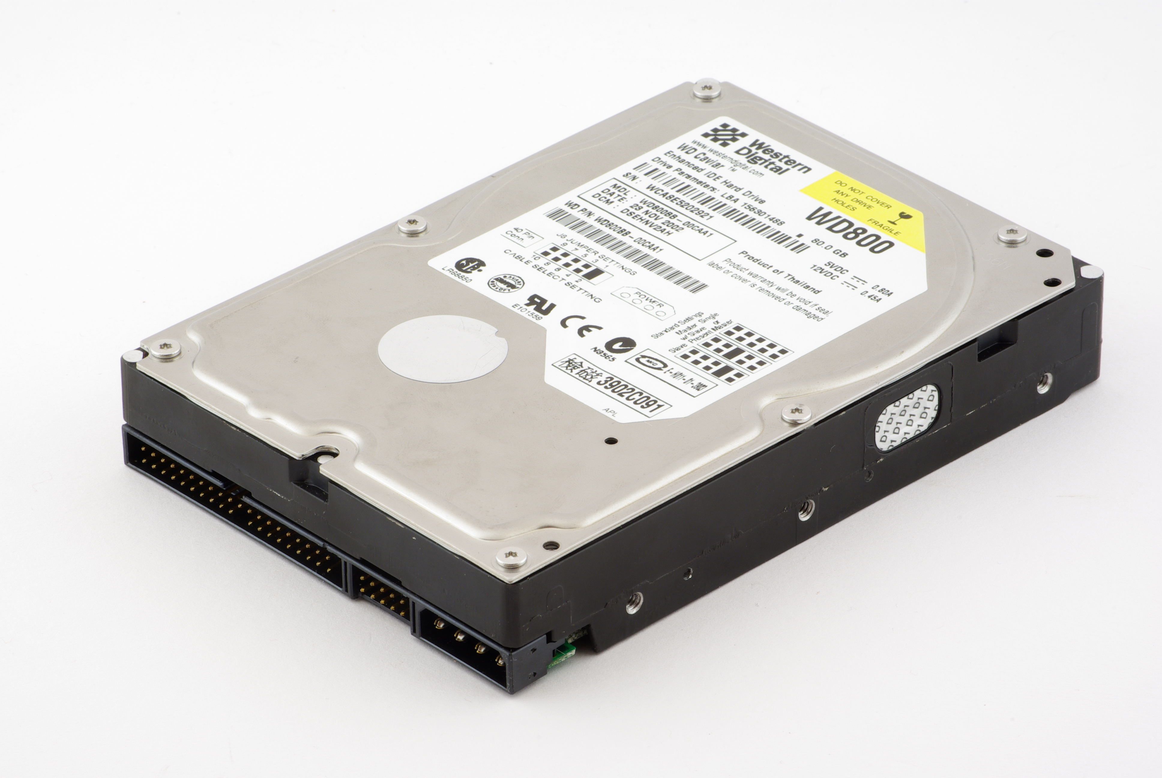 Western Digital WD800 hard disk drive (80 GB storage capacity, date of manufacture: November 2002).